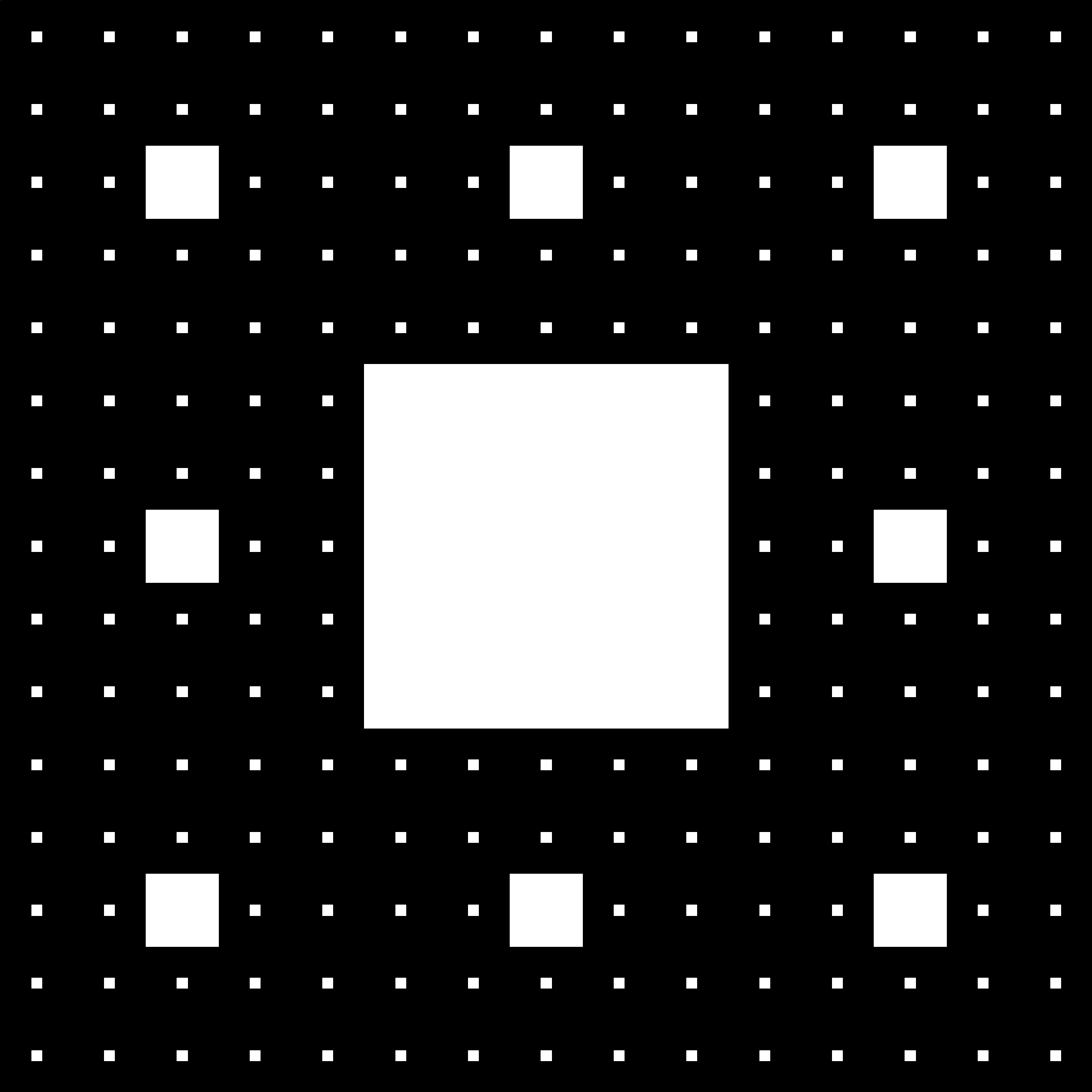 Third iteration of the Wallis sieve. Similar to the Sierpinski carpet, except that the square is split into successive odd numbers squared. 3^3=9 (as with every step of the Sierpinski carpet), 5^2=25, 7^2=49... With each iteration the area of the remaining black squares approaches pi/4.